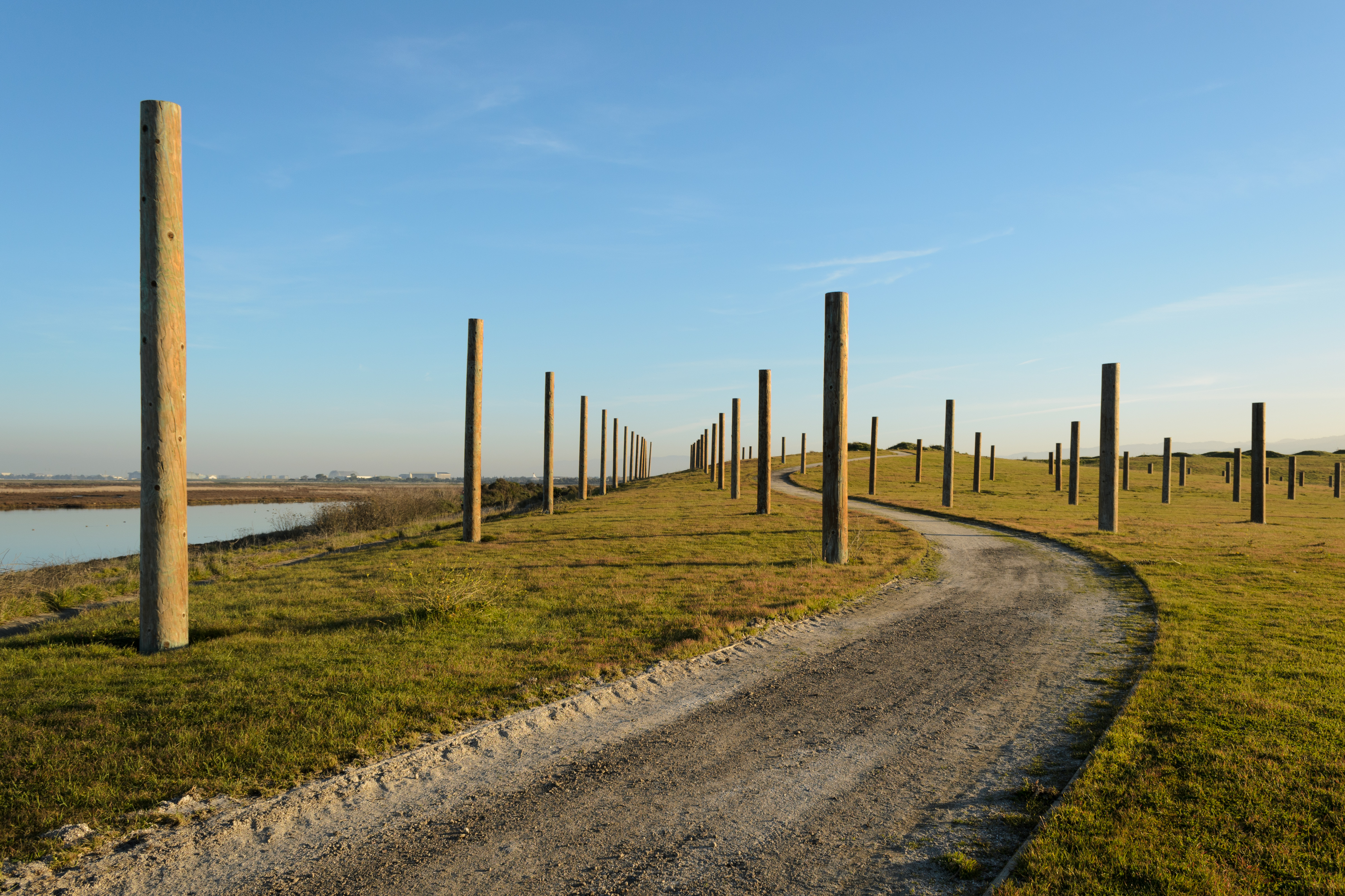 Wooden poles, Baylands Nature Preserve, Palo Alto, California.